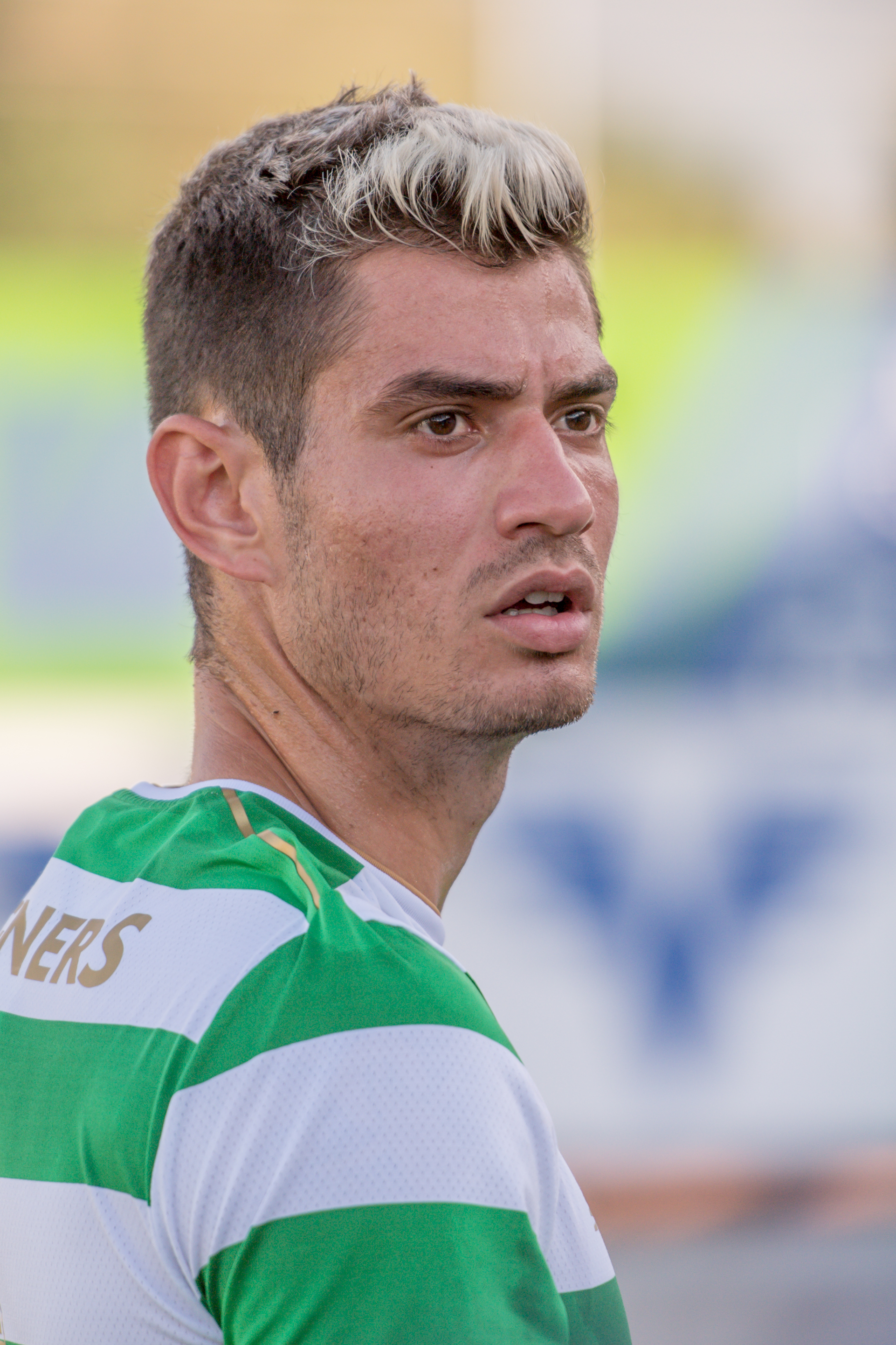 1/7/2017, Amstetten, Austria, sports, soccer, Tipico Fussball Bundesliga - preparation match SK Rapid Wien vs Celtic Glasgow. Image shows Nir Bitton (Celtic FC).